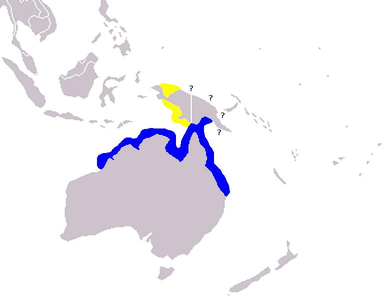 Orcaella heinsohni range map. Known range = blue, suspected range = yellow. Question marks indicate areas where further research is required. Based on map in original description of species, p.384